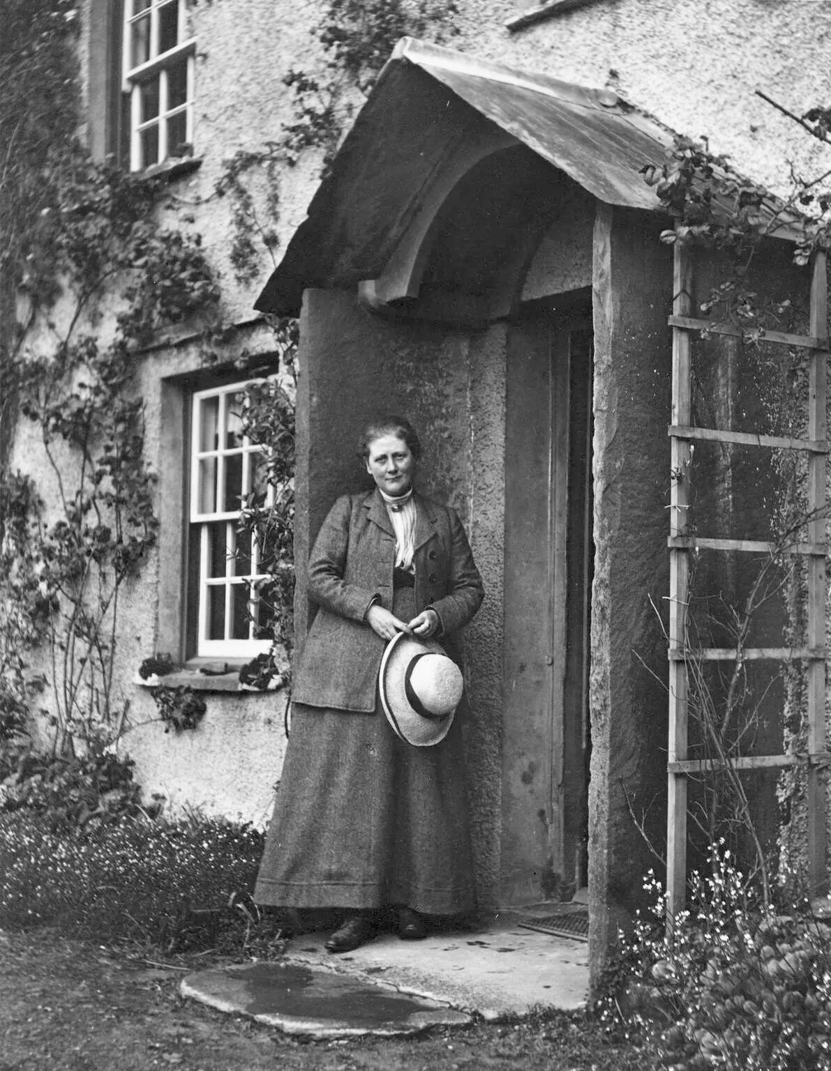 Vintage snapshot 112 mm x 87 mm